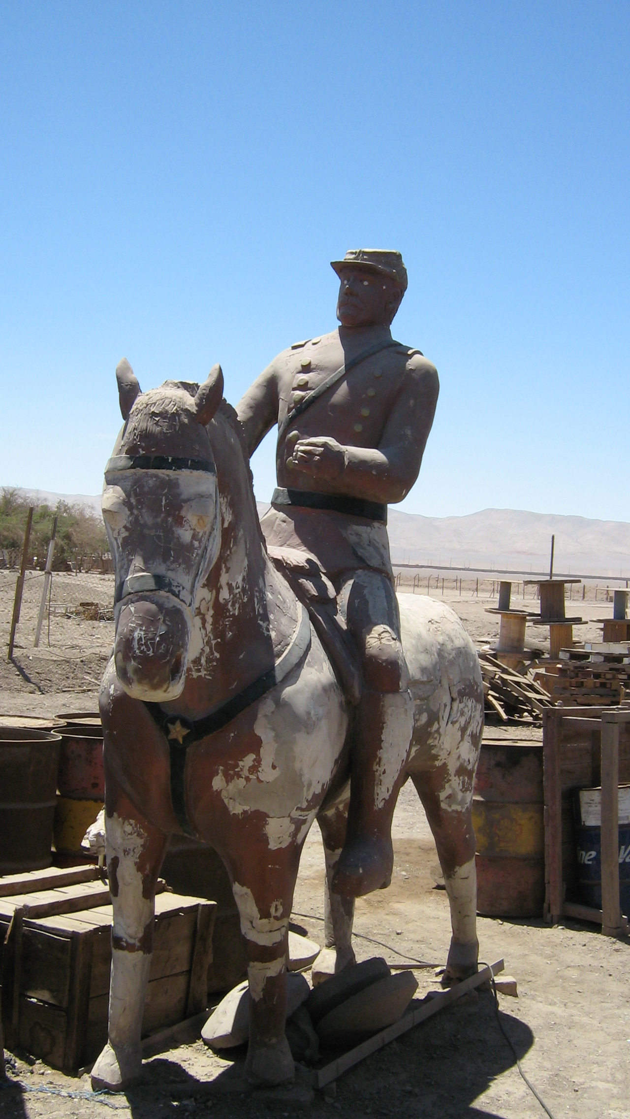 Baquedano wood figure